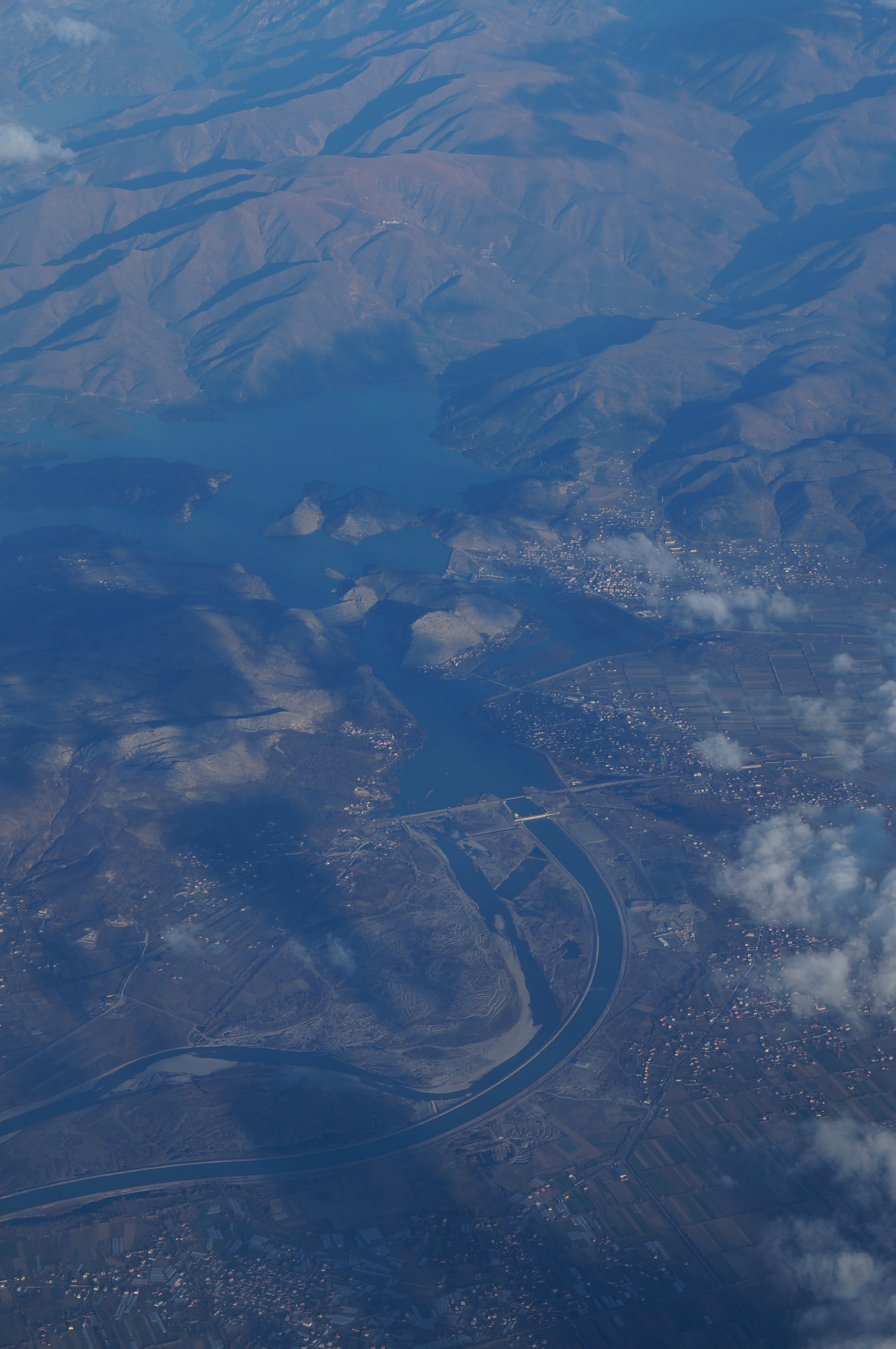 Area of Vau Deja with the Lake of Vau i Dejës, Spathara Reservoir and hydroelectric power station Ashta 1, River Drin at the bottom